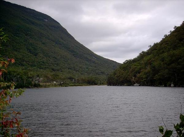 Franconia Notch, looking south from Profile Lake